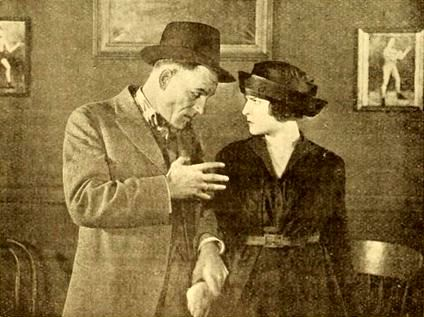 Still from the American film The Wicked Darling (1919) with Lon Chaney and Priscilla Dean, on page 1227 of the March 1, 1919 Moving Picture World.